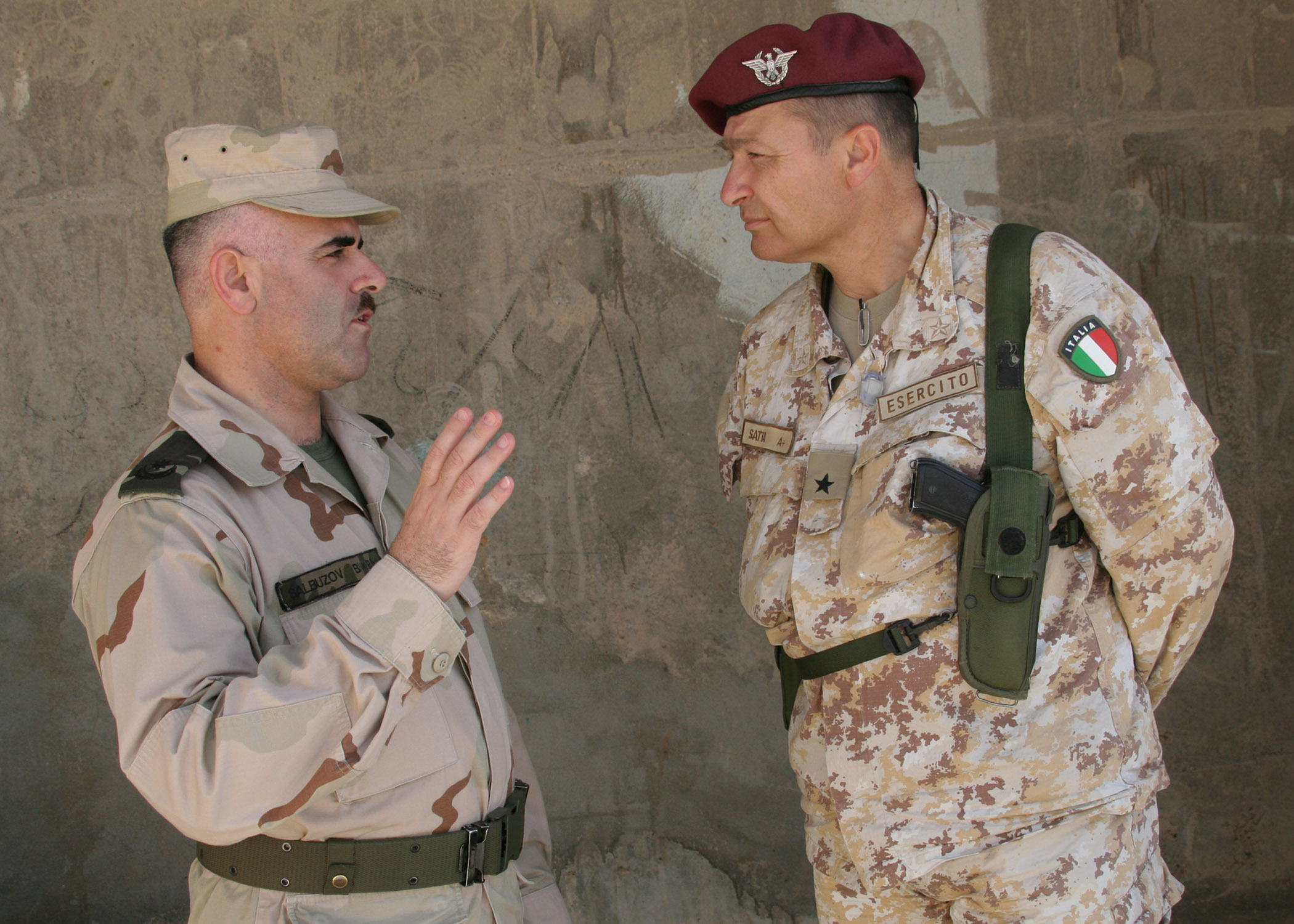 Italian Brig. Gen. Antonio Satta discusses the security situation in Al Anbar Province, Iraq with Azerbaijani Maj. Elkhan Shalbuzov. Shalbuzov is the commander of the approximately 150 Azerbaijani soldiers. They are responsible for keeping the walls and water of Hadithah Dam secure.